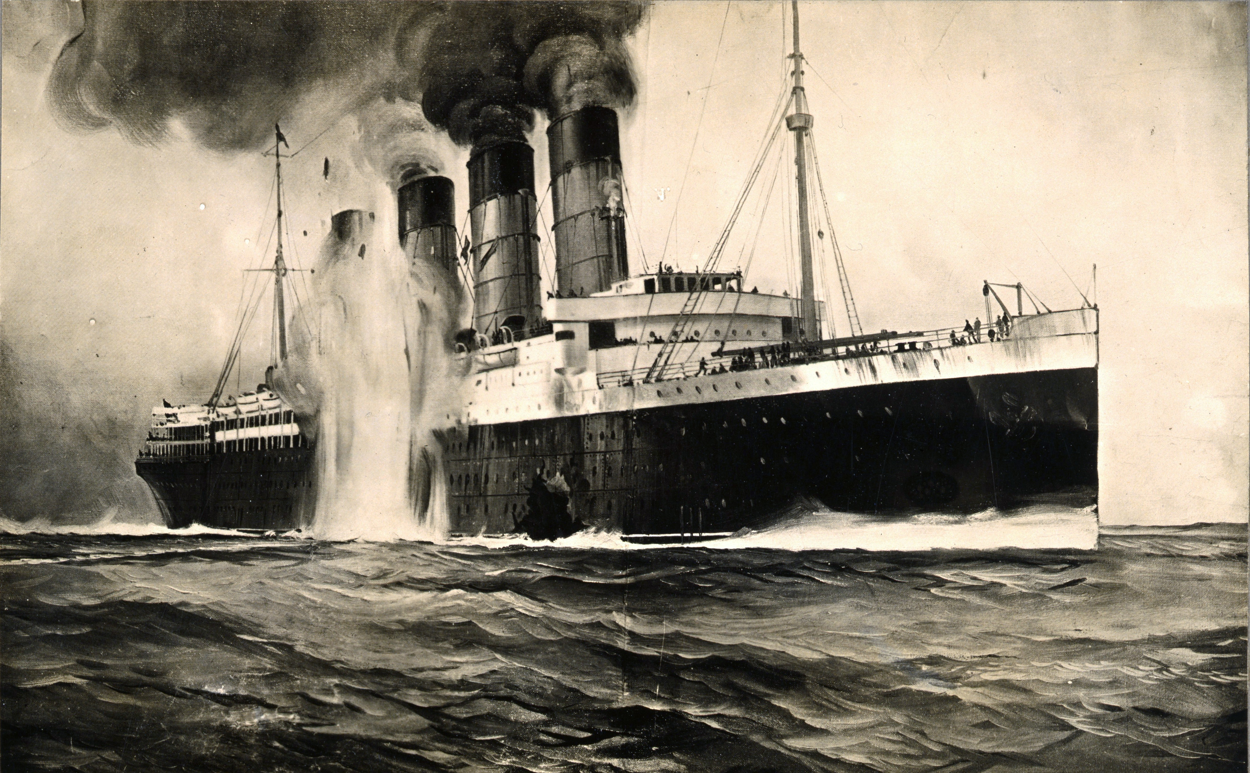 RMS Lusitania was torpedoed by German U-boat U-20